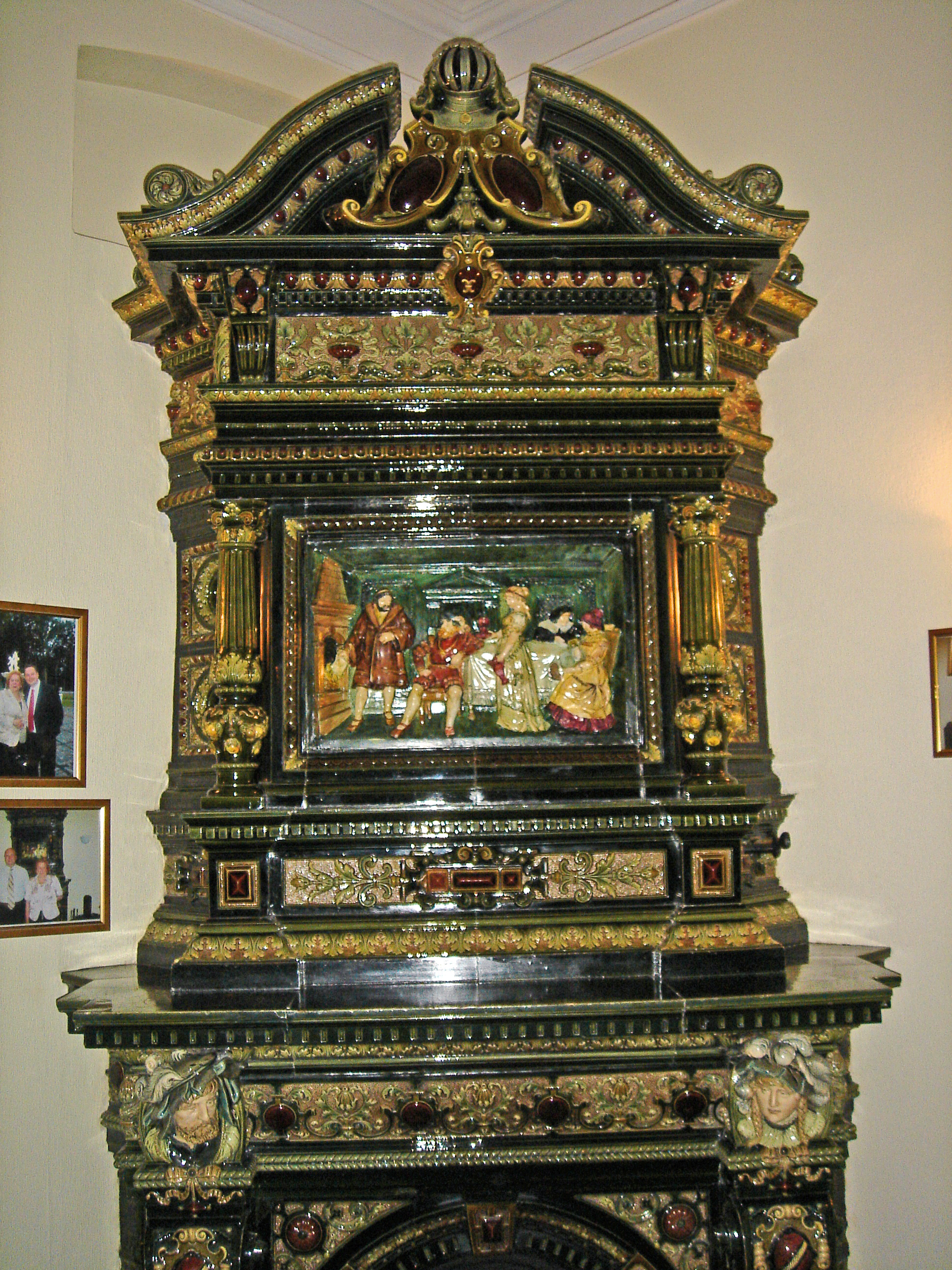 Fireplace at Sventes manor, by Zelm & Boehm (Riga)